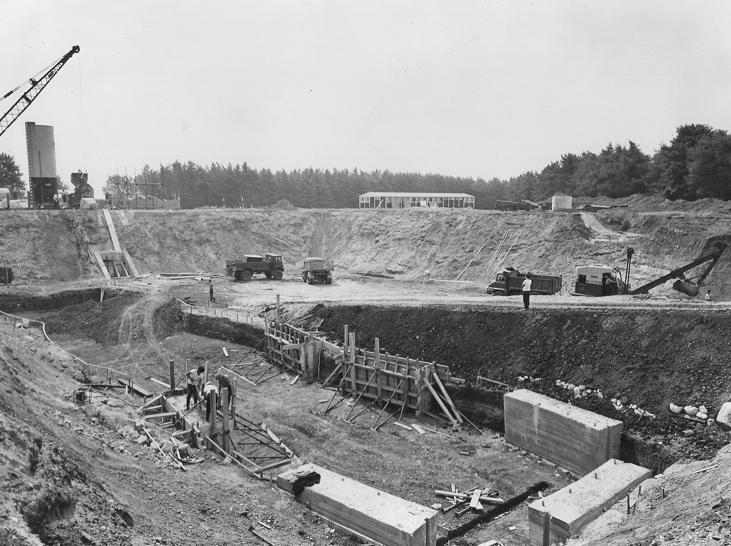 Excavating an anchorage point at Beachley during construction of the first Severn Bridge, Beachley, England